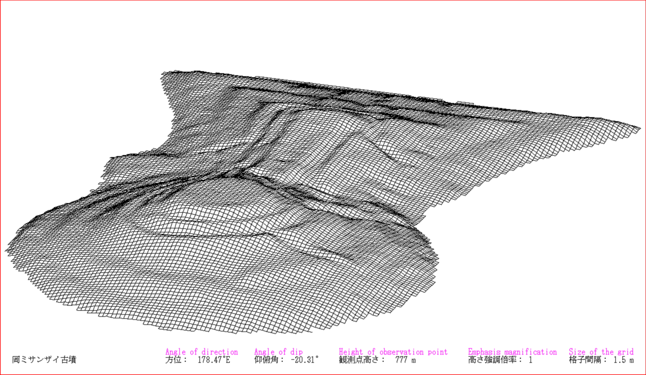 I who am a contributor drew the picture by a software which developed by myself. The survey map which I referred to depends on "「仲哀天皇陵古墳」『古市古墳群測量図集成』古市古墳群世界文化遺産登録推進連絡会議（羽曳野市・藤井寺市） (2015年）". This is a drawing of present situation (not a drawing of a restored mound). The drawing depends on wire frame. Perspective projection.